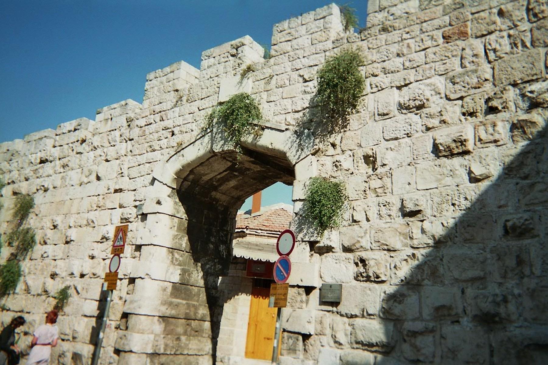 Old Jerusalem New Gate Caper